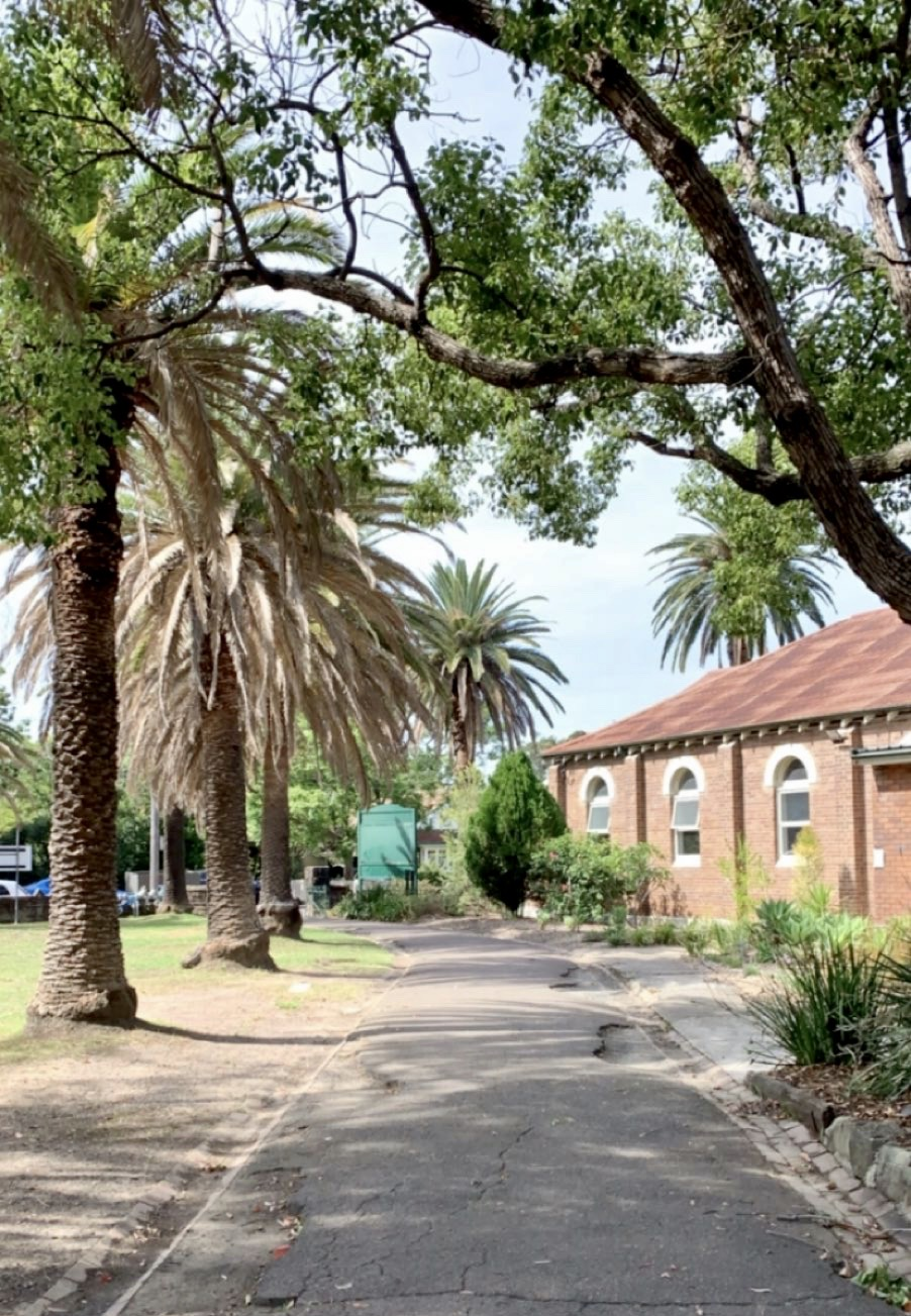 This is a photo of the Southern Entrance to St John's Church grounds in Ashfield.